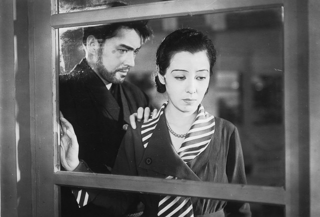 Jōji Oka and Yoshiko Okada in Nasaku naka (1932)